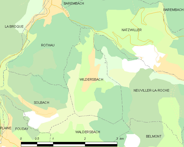 Map of French municipality